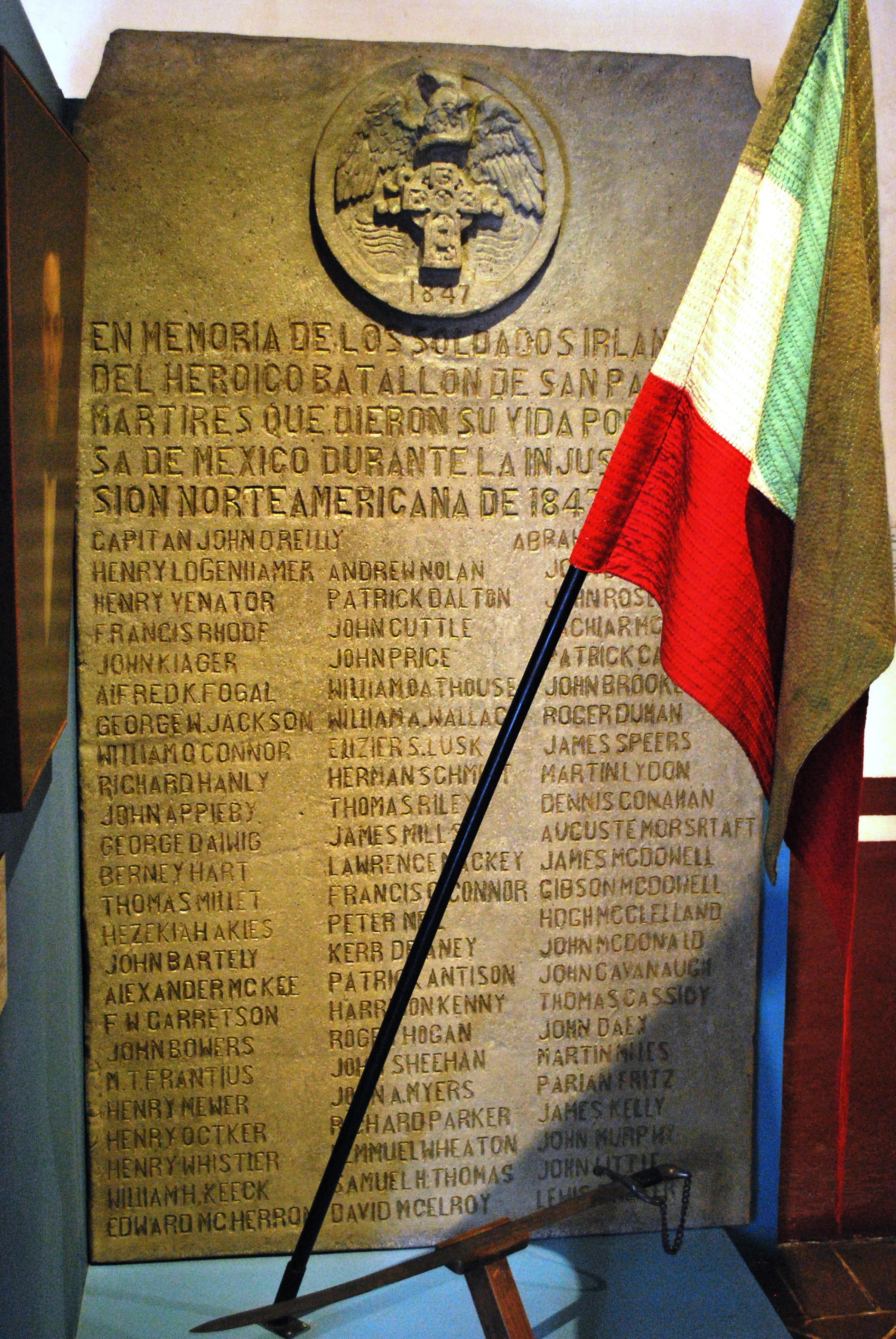 Display to the Irish soldiers who switched sides during the Mexican American War at the Museo Nacional de las Intervenciones (ex Monastery of Churubusco) in Coyoacan borough, Mexico City